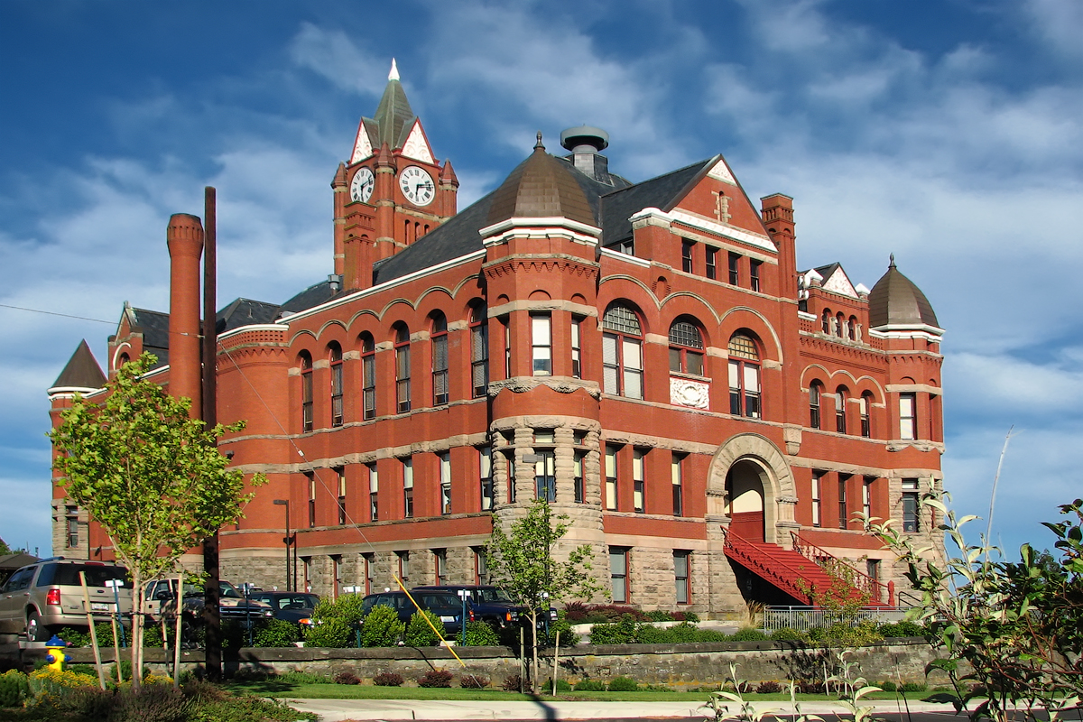 Jefferson County Courthouse in Port Townsend, WA. Architects: Rigby,John, Ritchie,W.A. Architectural Style: Romanesque